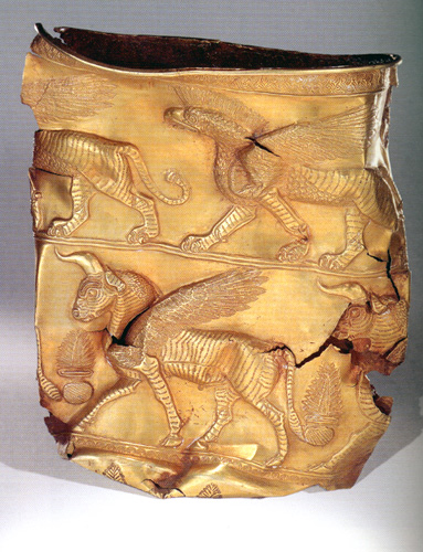 Golden Cup depicting Griffin on top band. Excavated at Marlik, Gilan province of Iran. First half of first millennium BC. National Museum of Iran.